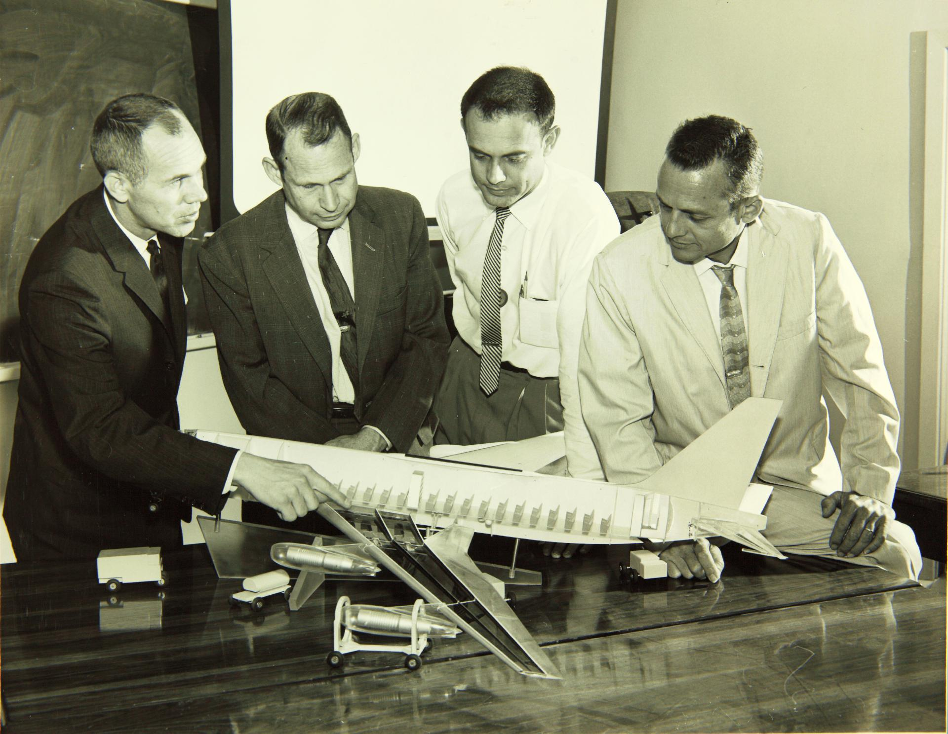 Catalog #: 01_00083295 Title: Convair , 880 Corporation Name: Convair Additional Information: USA Designation: 880 Tags: Convair , 880 Repository: San Diego Air and Space Museum Archive